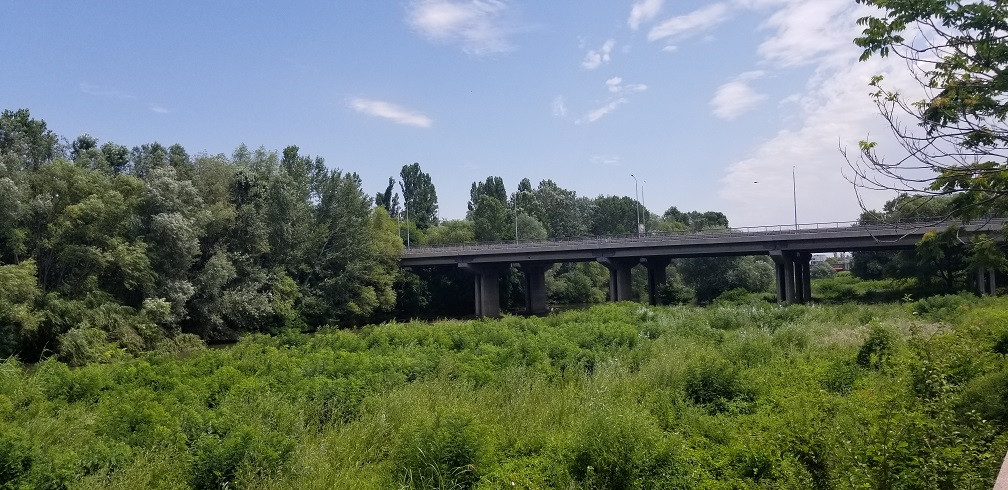 Agata Bridge, Plovdiv